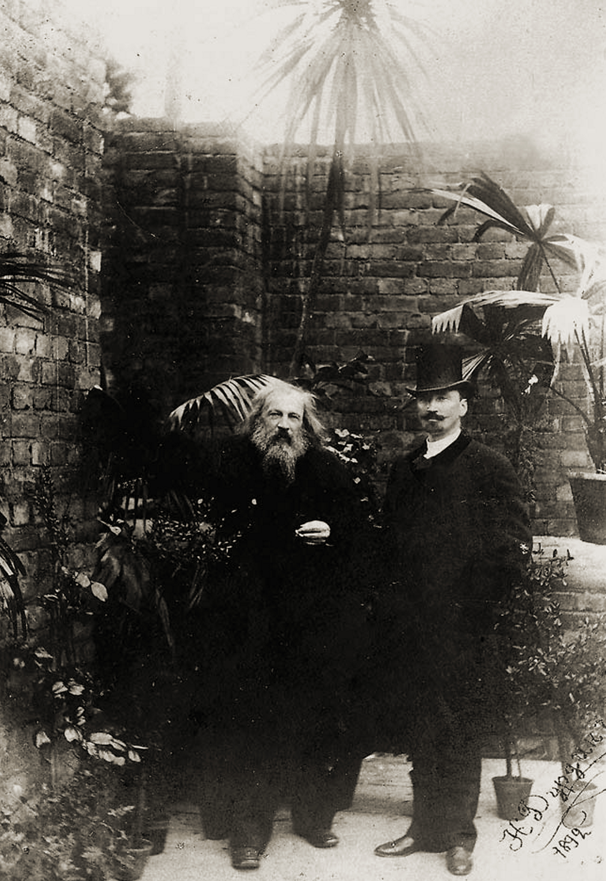 D. I. Mendeleev and D. P. Konovalov on opening foundation of new University laboratory 1892